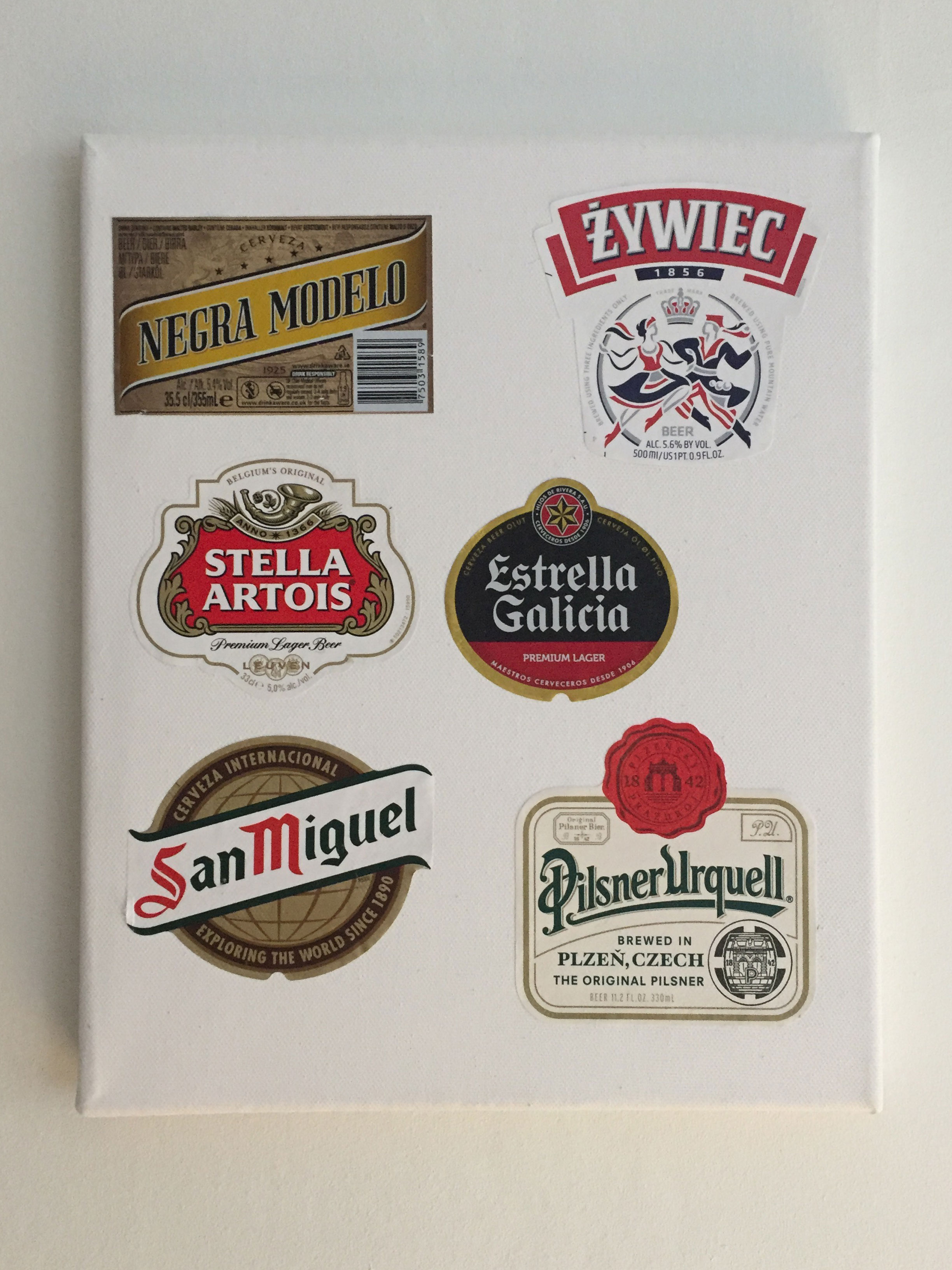 A collage consisting of six beer labels, 2015.